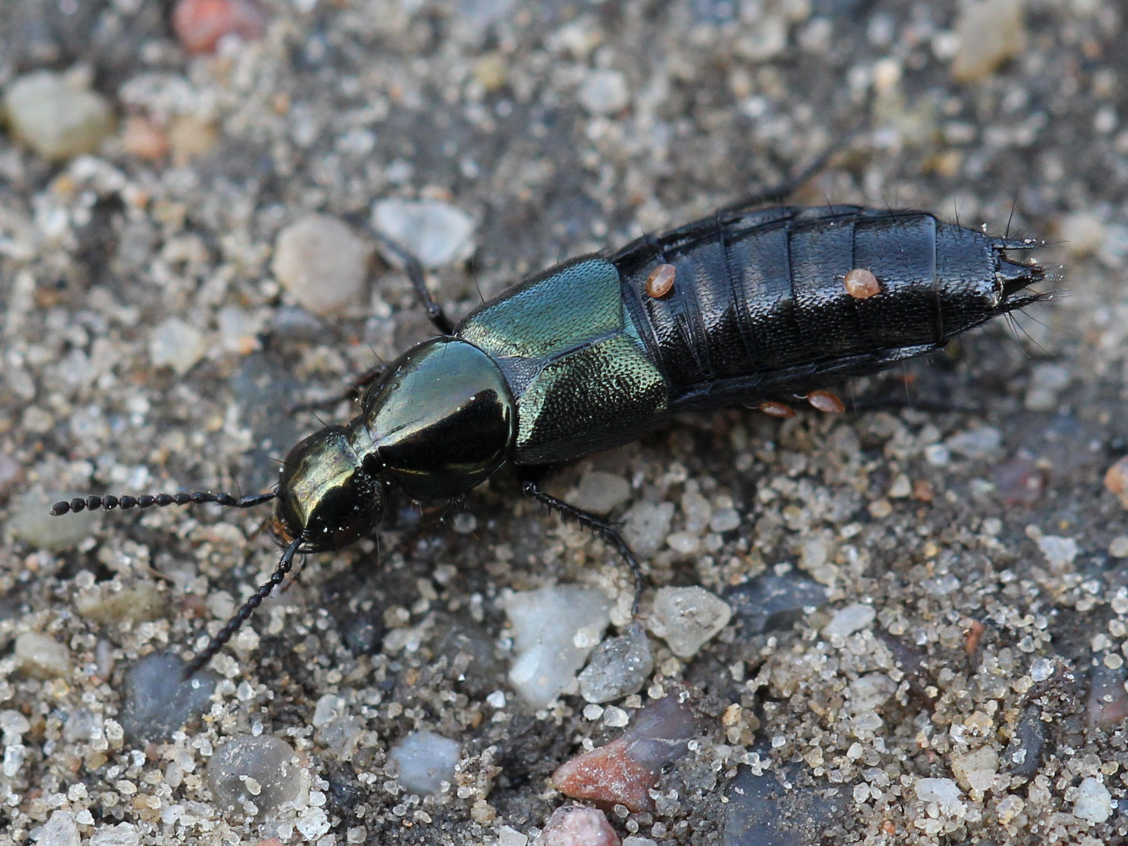 Philonthus laminatus (Creutz., 1799), found in Latvia, Rīga, Zasulauks station.